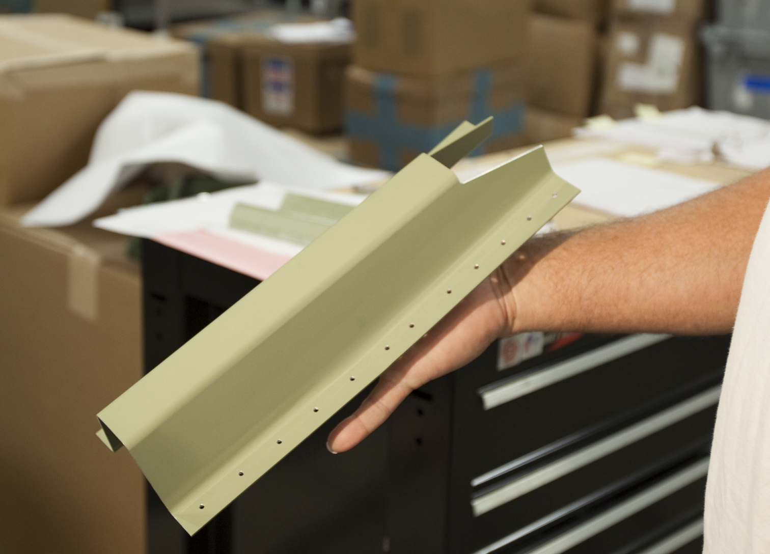 At NASA's Kennedy Space Center in Florida, a technician holds a new doubler that will be installed on a stringer of space shuttle Discovery's external fuel tank. Cracks were found on two stringers, which are the composite aluminum ribs located vertically on the intertank area, following loading operations for Discovery’s launch attempt on Nov. 5. Discovery's next launch attempt is no earlier than Nov. 30 at 4:02 a.m. EST. For more information on STS-133, visit